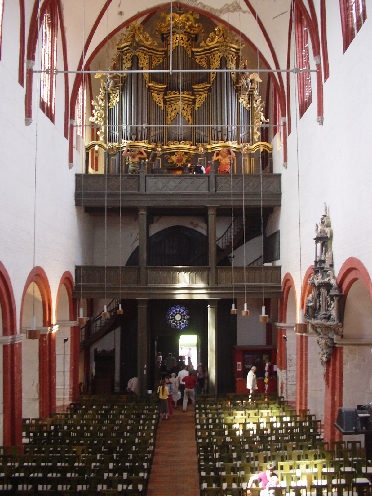 West nave of Brandenburg Cathedral.